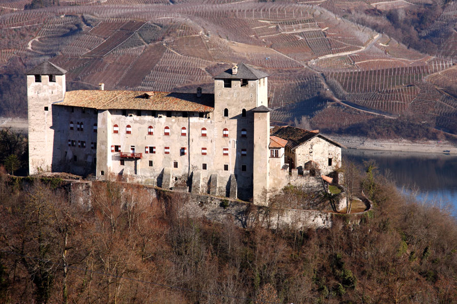 Cles Castle, Cles, Trento, Italy